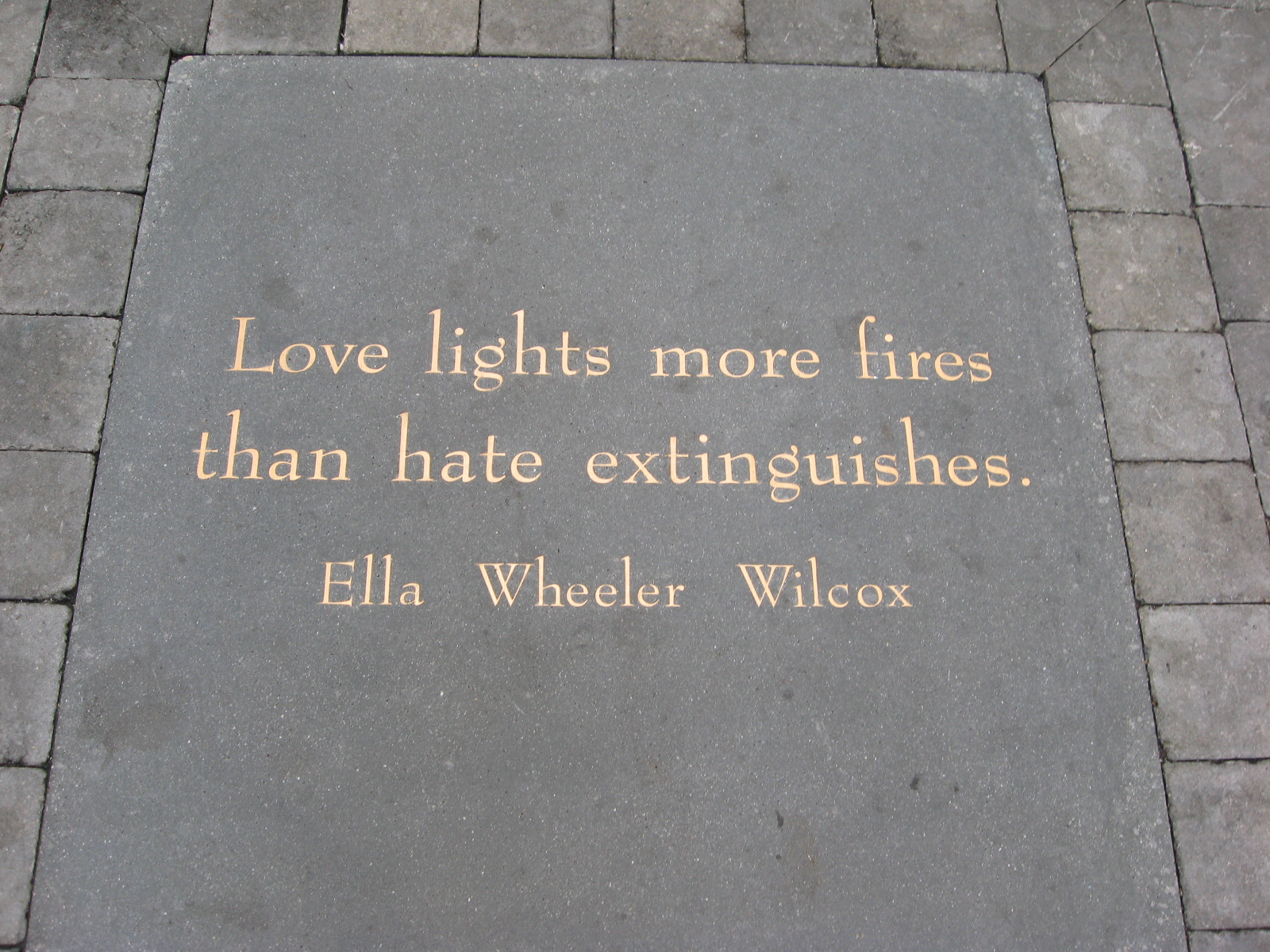 Ella Wheeler Wilcox's poem plaque near the City Lights Bookstore in San Francisco Chinatown's Jack Kerouac Alley.